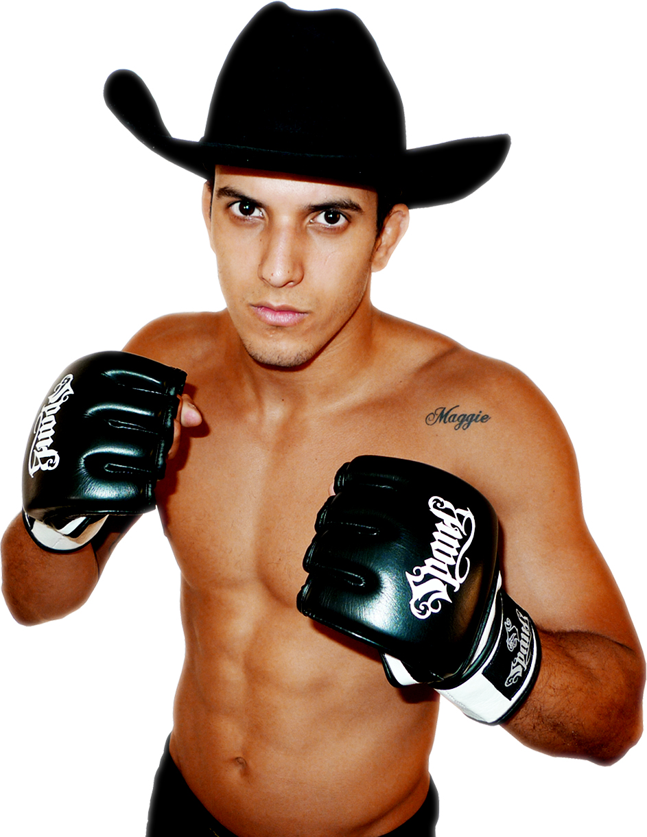 MMA Fighter